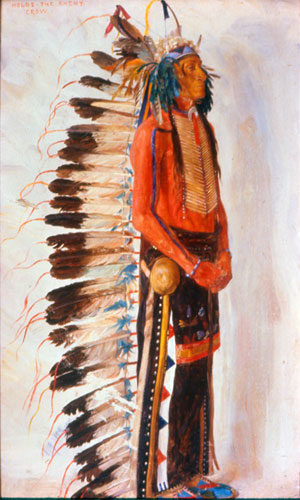 Painting of Holds The Enemy, a Crow Indian warrior painted by E.A Burbank, 1897.